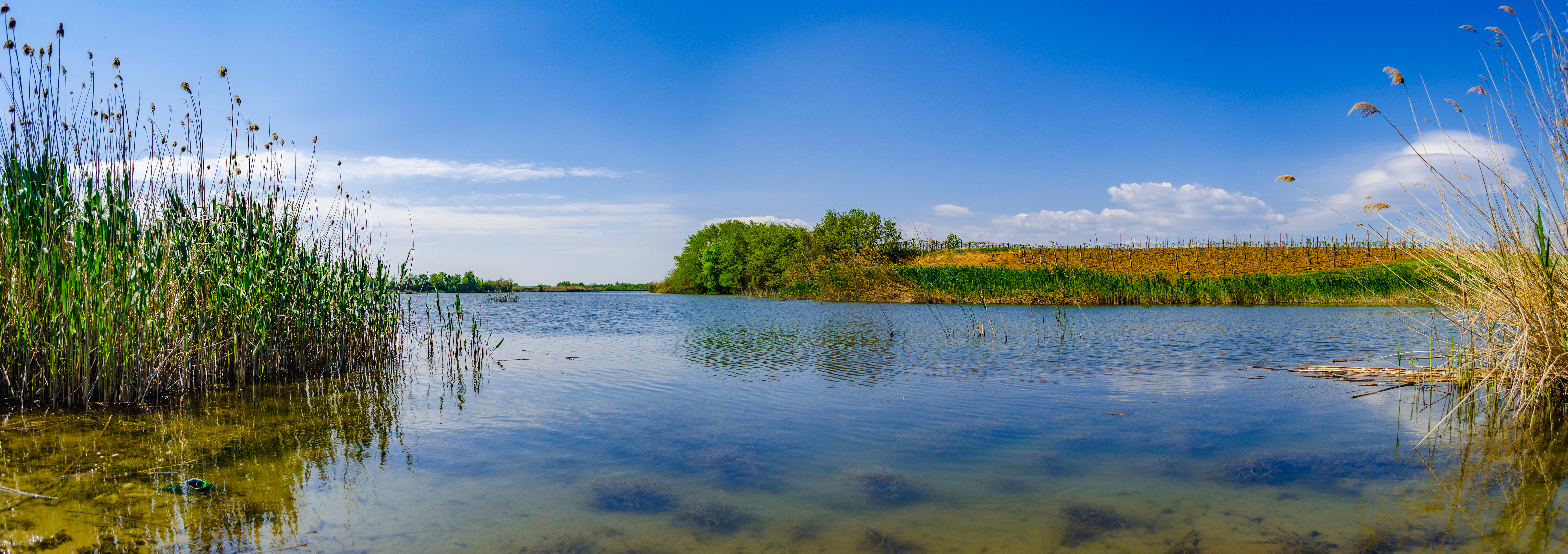 Selemli Lake near the eponymous village, Macedonia